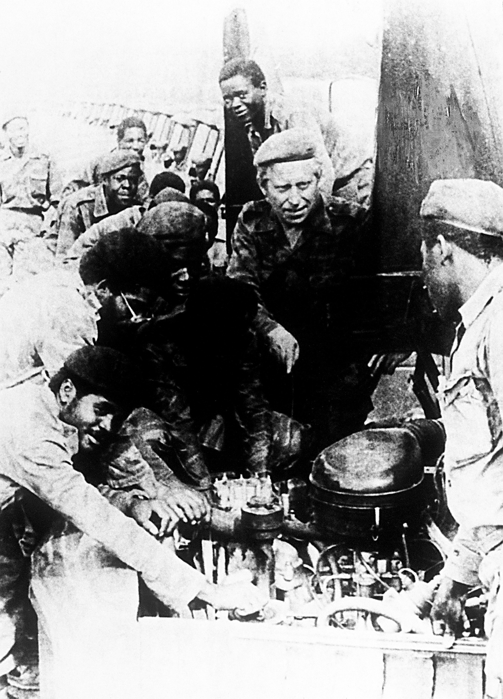 Soviet and East Bloc military advisors in Angola. "Soviet Military Power," 1983, Page 92